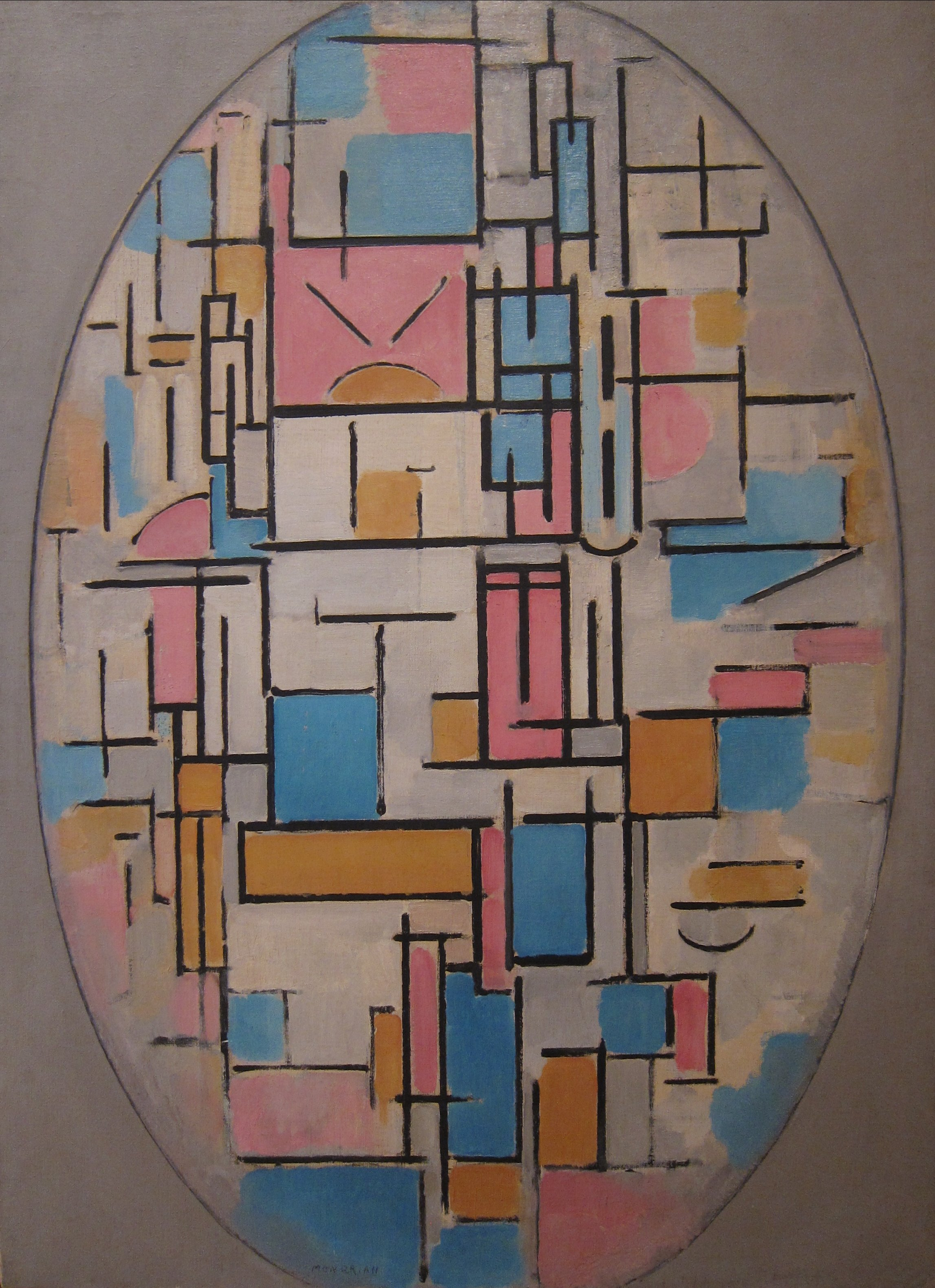 Composition in Oval with Color Planes 1